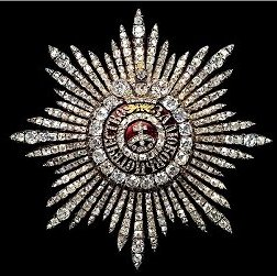 Order of Saint Catherine, Star